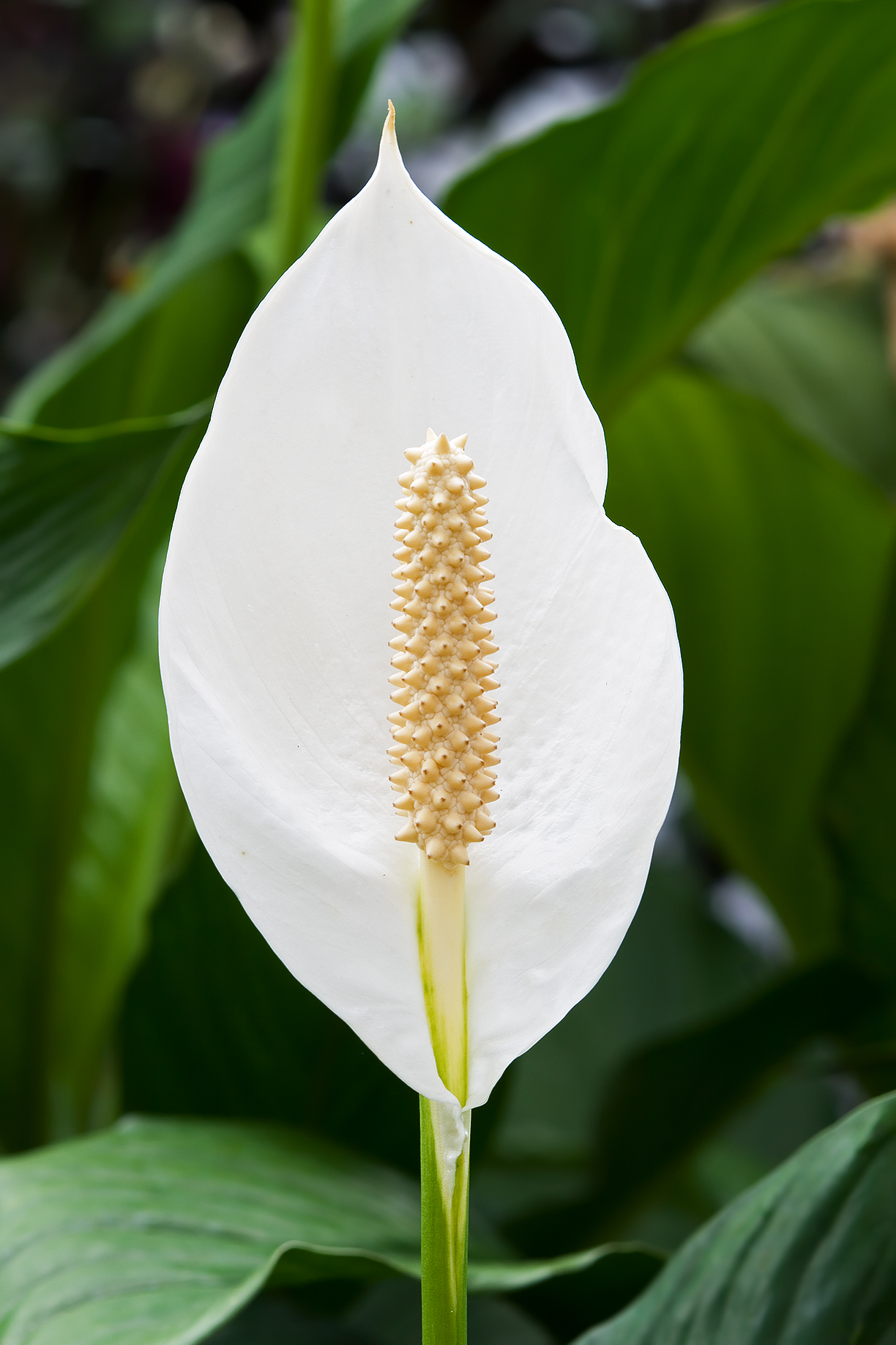 Peace Lily (Spathiphyllum cochlearispathum), Royal Tasmanian Botanical Gardens, Tasmania, Australia Camera data Camera Canon EOS 400D Lens Tamron EF 180mm f3.5 1:1 Macro Focal length 180 mm Aperture f/8 Exposure time 1/3 s Sensivity ISO 100